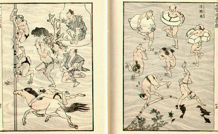 Double page from vol. 4 of the Hokusai Manga, showing bathing and diving people.